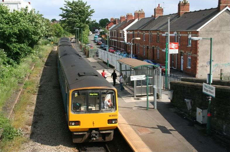 Arrival at Dingle Rd